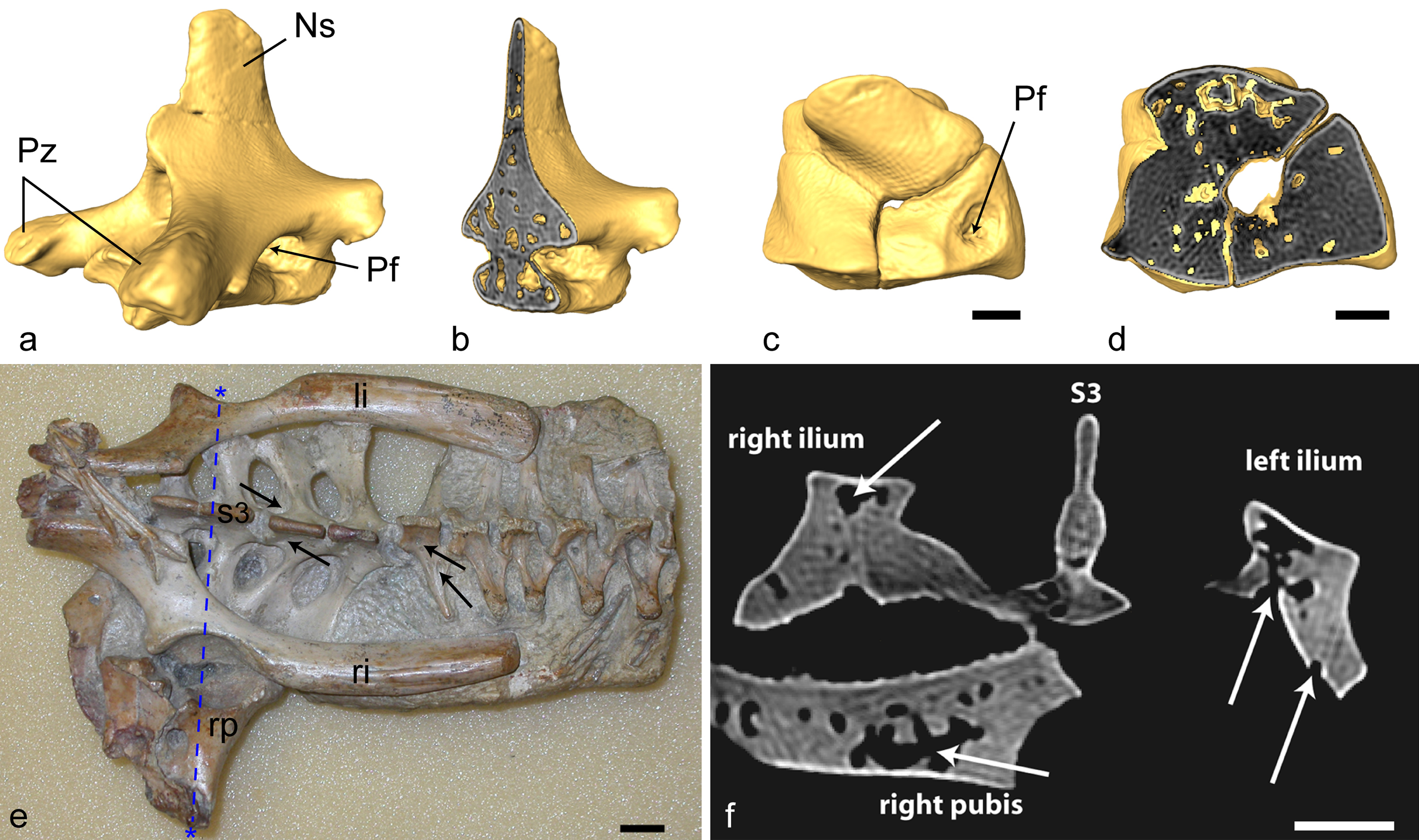 Micro-computed tomographic (CT) scans and photograph illustrating external pneumatic openings and typical pneumatic architecture in the ornithocheirid pterosaur Anhanguera santanae (AMNH 22555). Vertebral (a, b), carpal (c, d), and pelvic (e, f) elements are characterized by the presence of thin cortical bone and large internal cavities (b, d, f). a, b, Mid-cervical (6th) vertebra in oblique craniolateral (a) and cutaway oblique craniolateral (b) views. Vertebral height = 5 cm. c, d, Left distal syncarpal in proximal (c) and cutaway proximal (d) views. e, dorsal view of block with pelvic elements, sacral vertebrae, and posterior dorsal vertebrae. Black arrows indicate the location of pneumatic foramina on select vertebrae (e) and white arrows indicate both pneumatic foramina and internal pneumatic cavities on pelvic elements (f). Asterisks on (e) delineate the location of the transverse section (dashed blue line) shown in (f). f, Transverse CT scan transect through pelvic block, showing pneumaticity of the sacral neural spine, ilia and right pubis. Note the large pneumatic opening on the surface of the left ilium. Scale bar (c–f) = 1 cm. li, left ilium; Ns, neural spine; Pf, pneumatic foramen; Pz, prezygapophysis; ri, right ilium; rp, right pubis; s3, sacral vertebra 3.